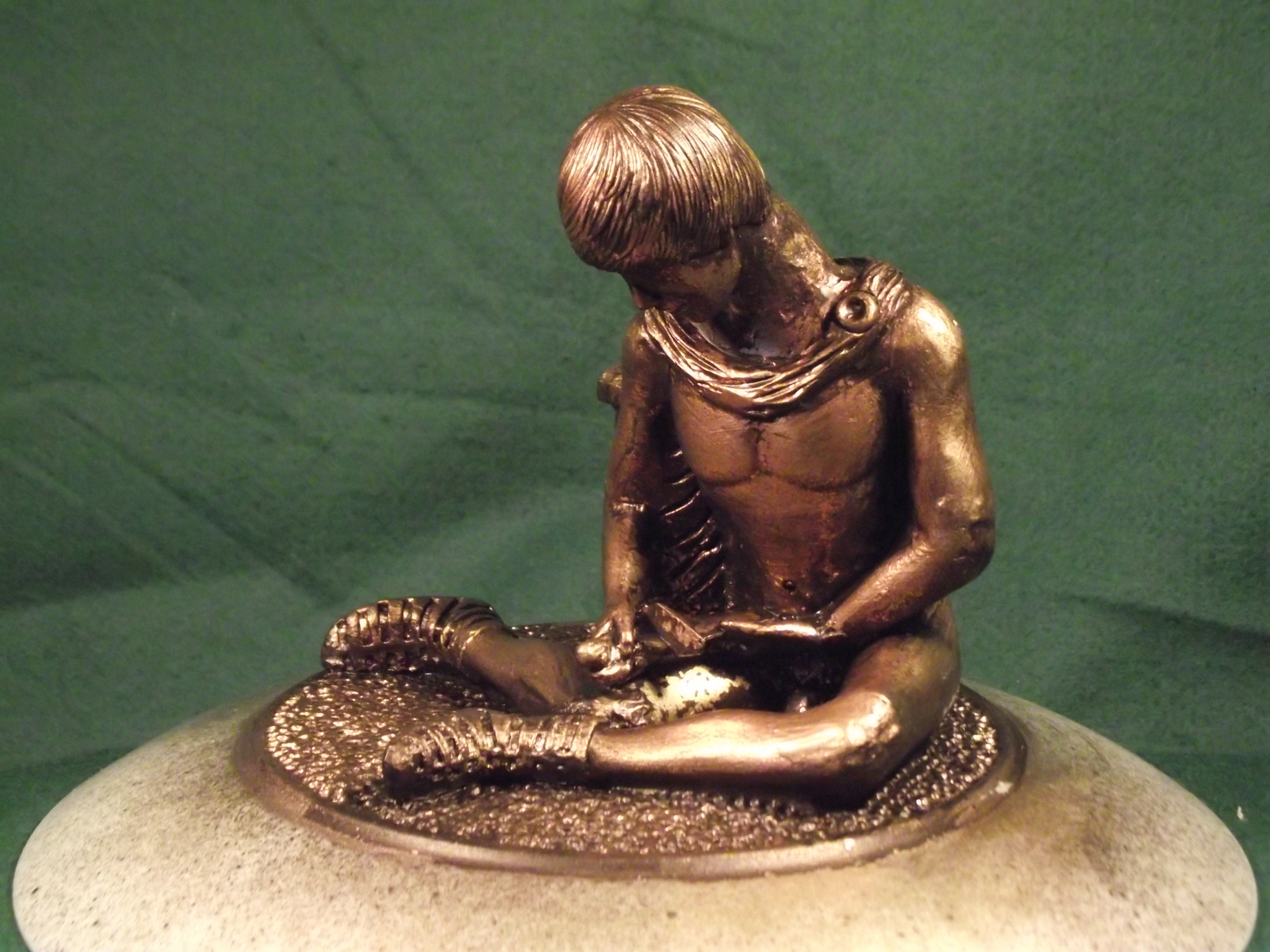 Aminias spurned lover of Narcissus.. Composite constructed sculpture of historical figure(s) reputed to have had a same sex relationships. Made of various materials & found objects with thin veneer film of bronze patina-ted paint giving appearance of solid bronze. A Metaphor of the appearance of solidity of LGBT rights & equality in law in the UK. Created by artist Malcolm Lidbury for 2016 LGBT History & Art Project Cornwall UK.